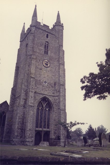 Lydd Church Tower Also known, as the only large church in the area as the Cathedral of the Marsh